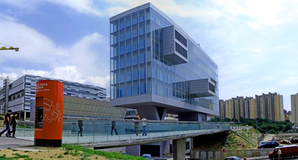 Split University Library wide